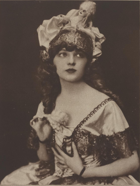 Annette Bade, of the Ziegfeld Midnight Frolic, from a 1921 publication. Photograph by Edward Thayer Monroe.